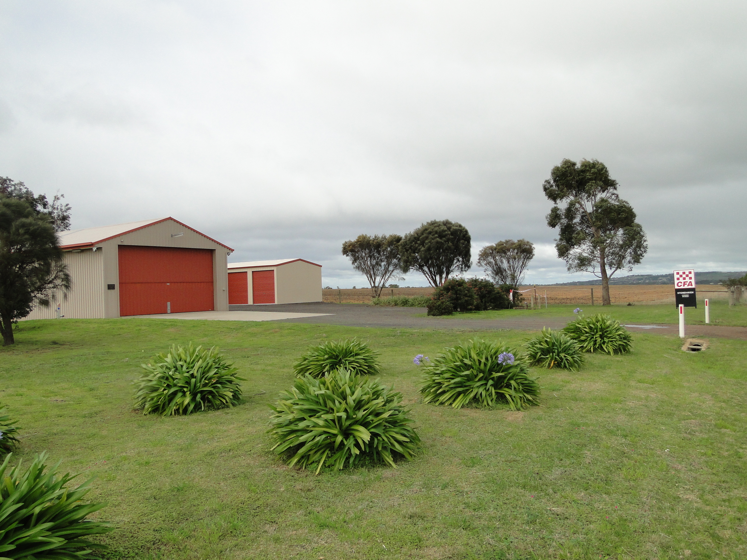 The Country Fire Authority fire station at Stonehaven, Victoria, Australia.